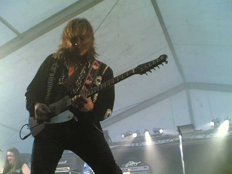 Finnish musician Costello Hautamäki performing live in Seinäjoki, Finland, on July 2006.